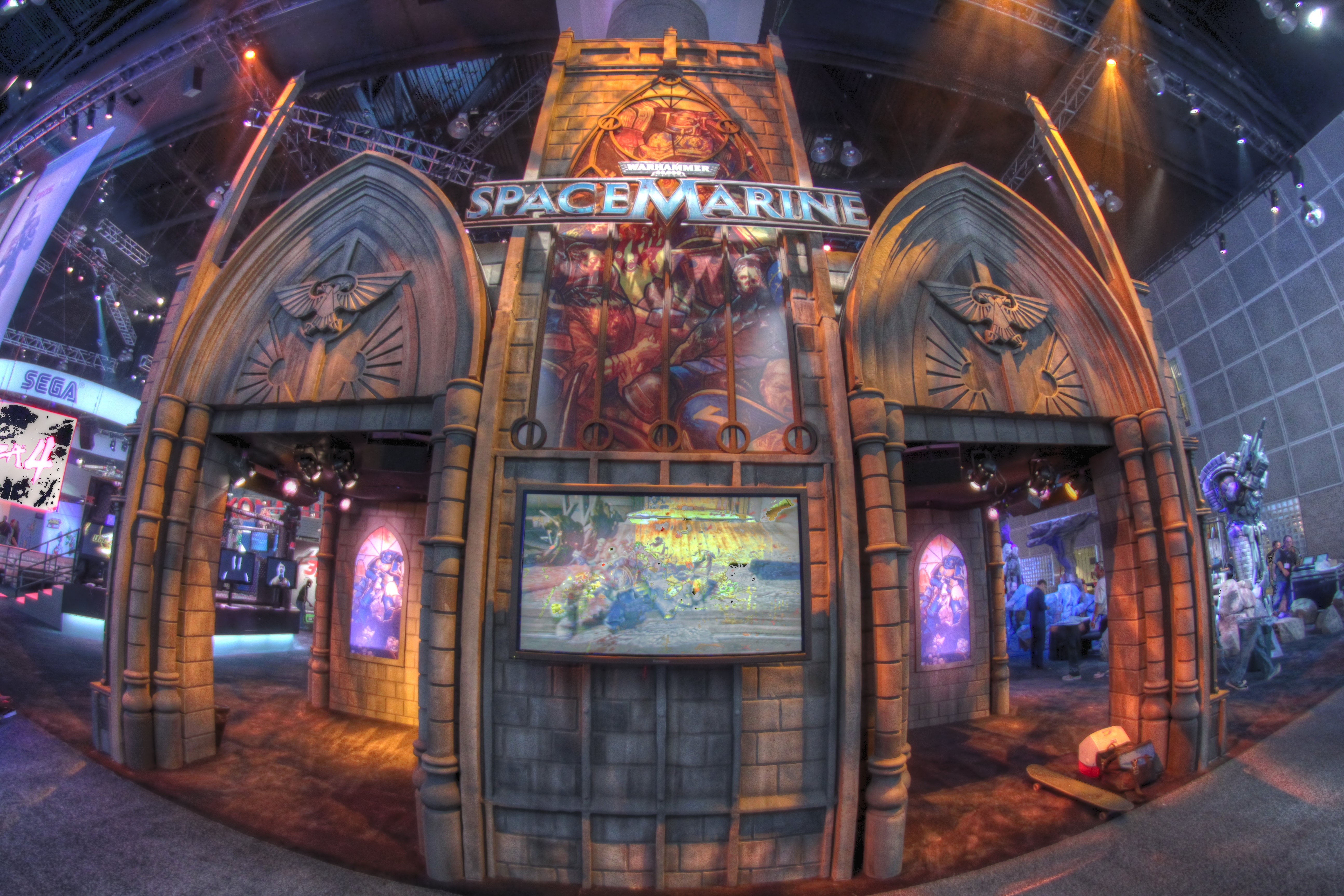 Promotion of Warhammer 40,000: Space Marine at E3 2010